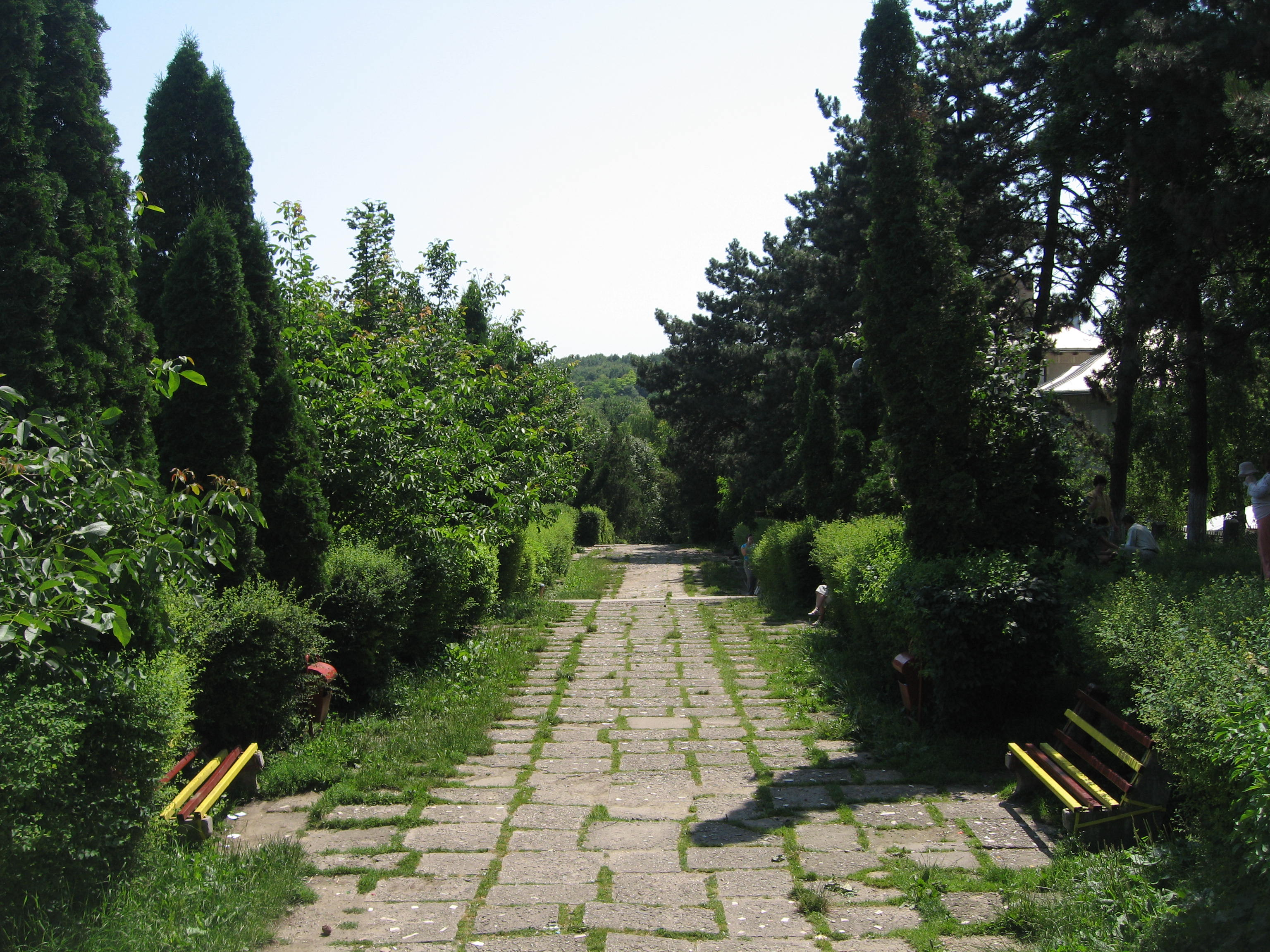 Şipote-Cetate Park in Suceava.